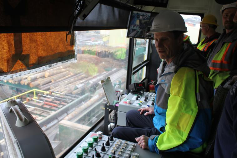 Oregon Senator Ron Wyden learning to run “head rig” at Collins Pine sawmill in Lakeview, Oregon